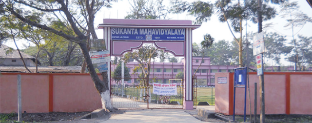 Dhupguri, Sukanta Mahavidyalaya Jalpaiguri College of North University